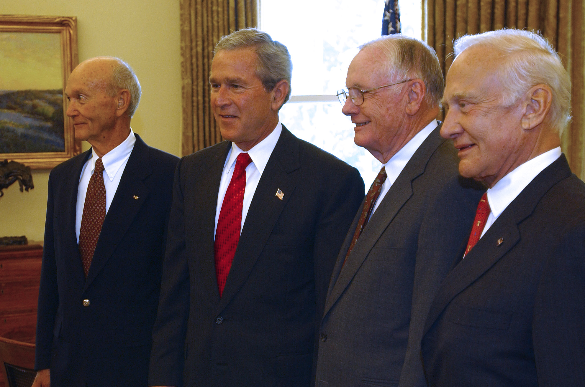 Astronauts Michael Collins (left), Neil Armstrong (2nd right), and Buzz Aldrin (right), with then-U.S. President George W. Bush on the 35th anniversary of the Moon landing.